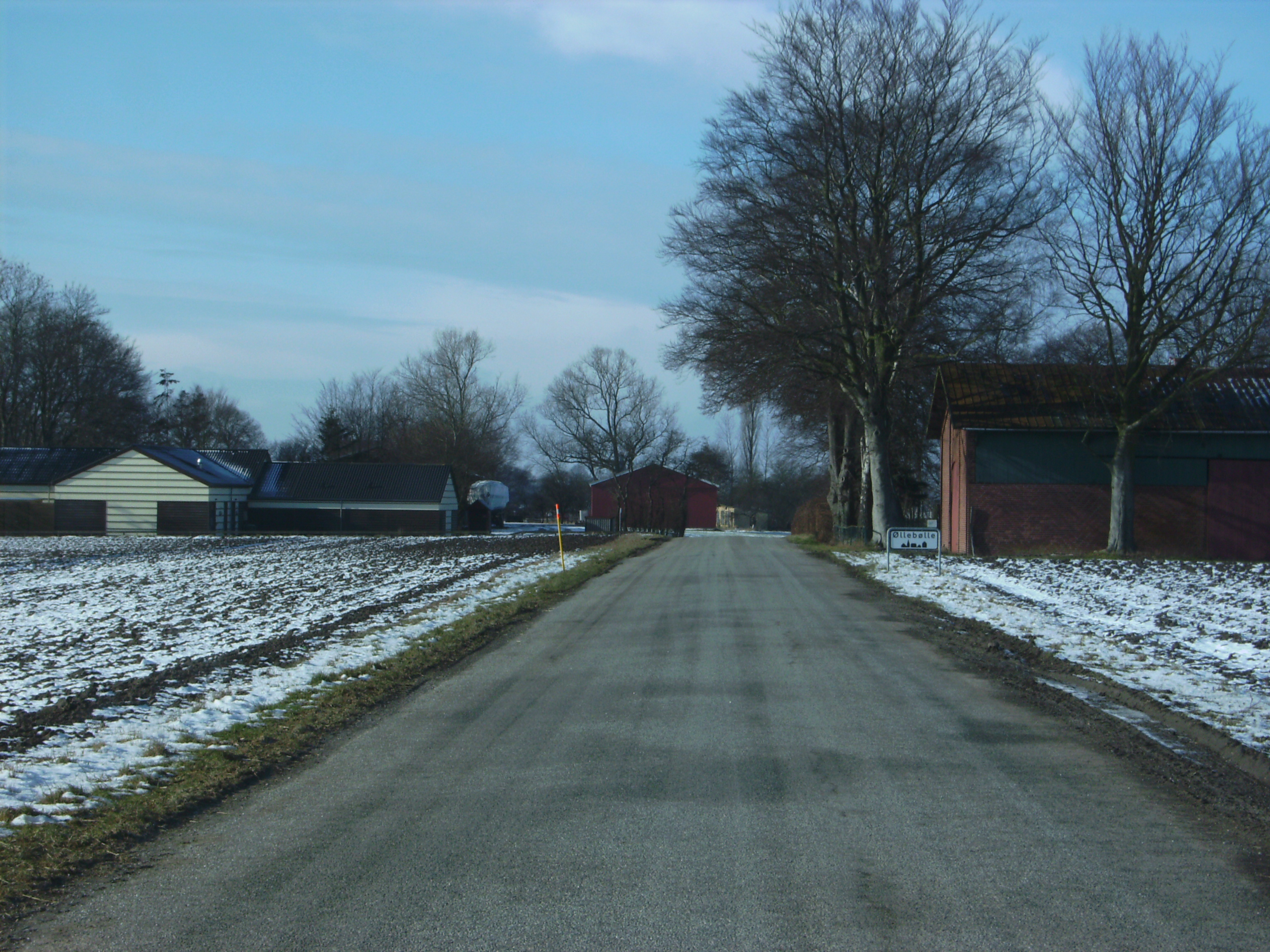 Small village in Denmark, Lolland